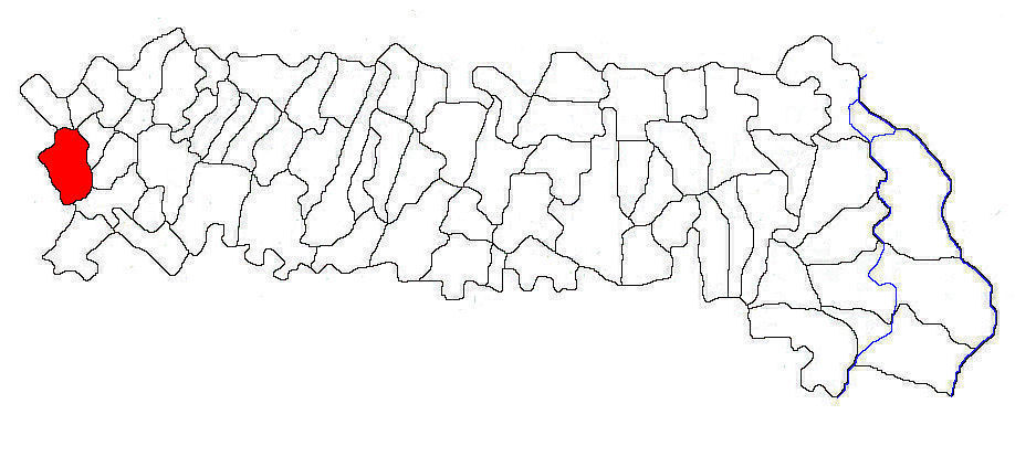 Limits of Fierbiniţi-Târg town